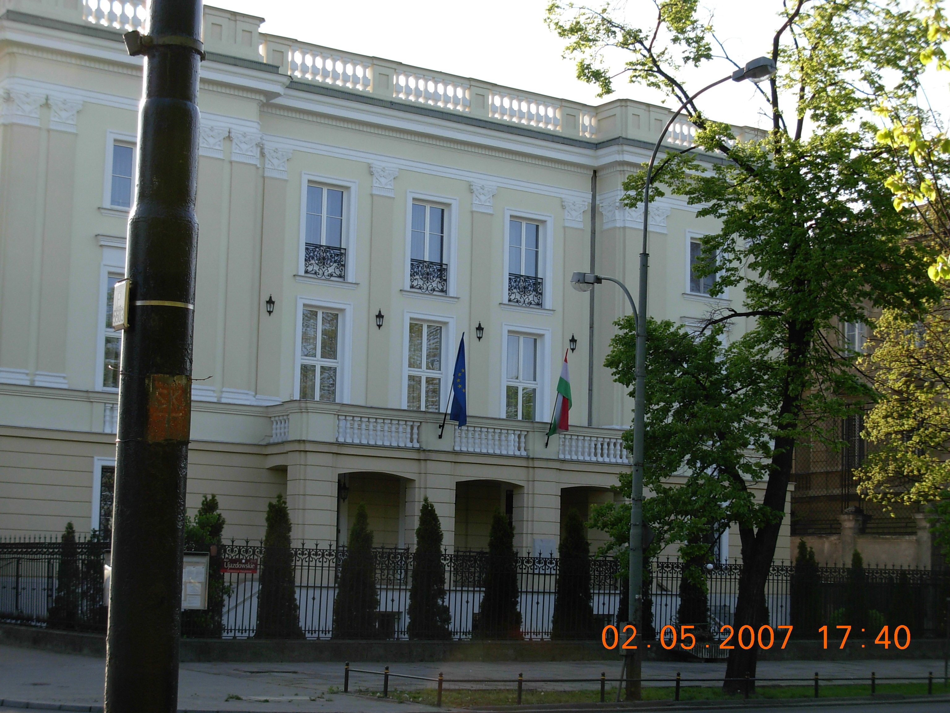 Hungarian Embassy in Warsaw